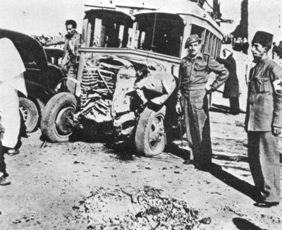 Arab truck after the explosion of a bomb placed by Irgoun - December 29, 1947. 7 palestinians killed.